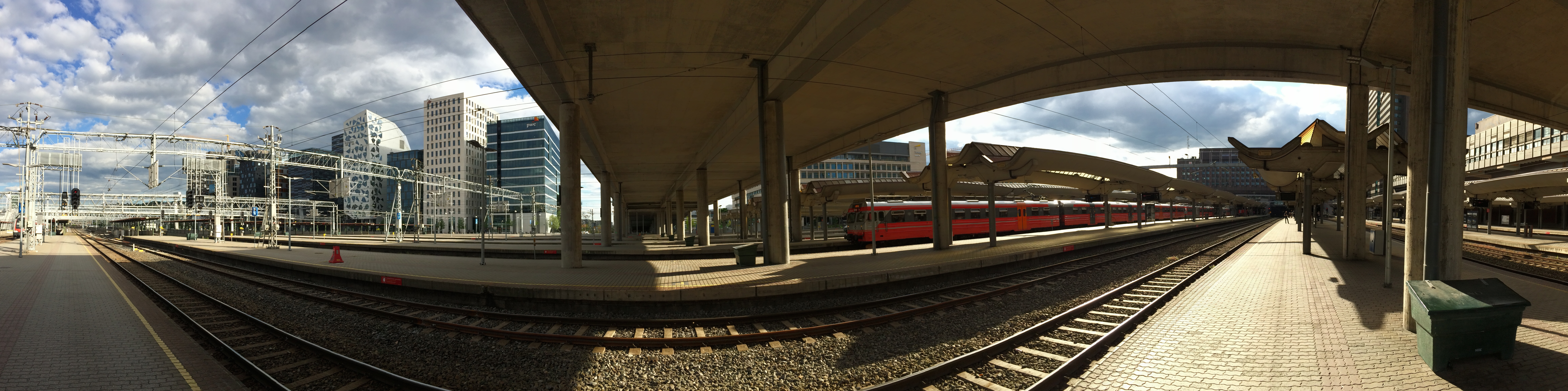 Oslo Central Station and Bjørvika Barcode, Norway 12th June, 2015. (iPhone5 panoramic view; distortion may occur in details and continuity.)